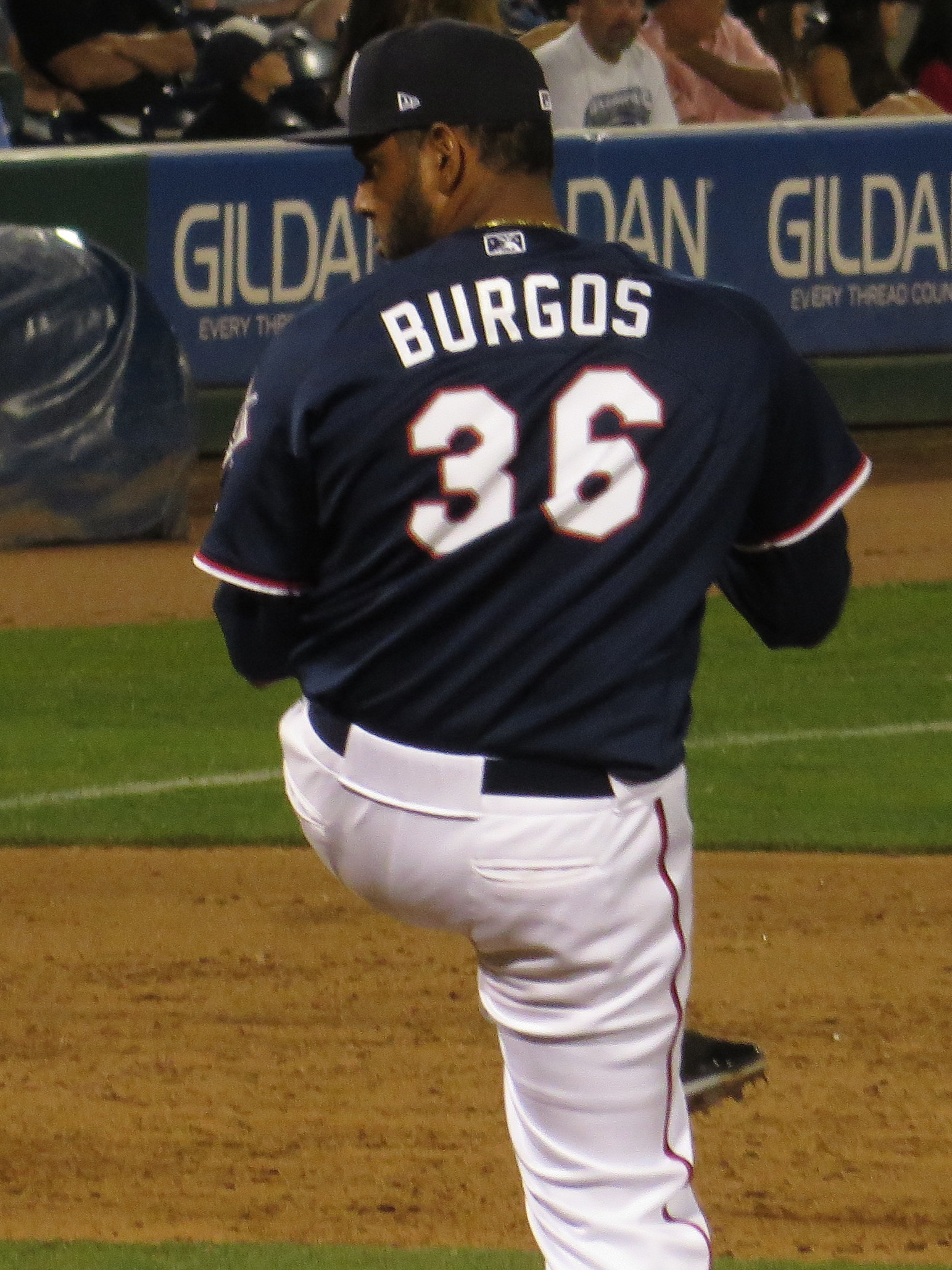 Enrique Burgos delivers a pitch for the Reno Aces during a 2015 game at Greater Nevada Field in Reno, Nevada.